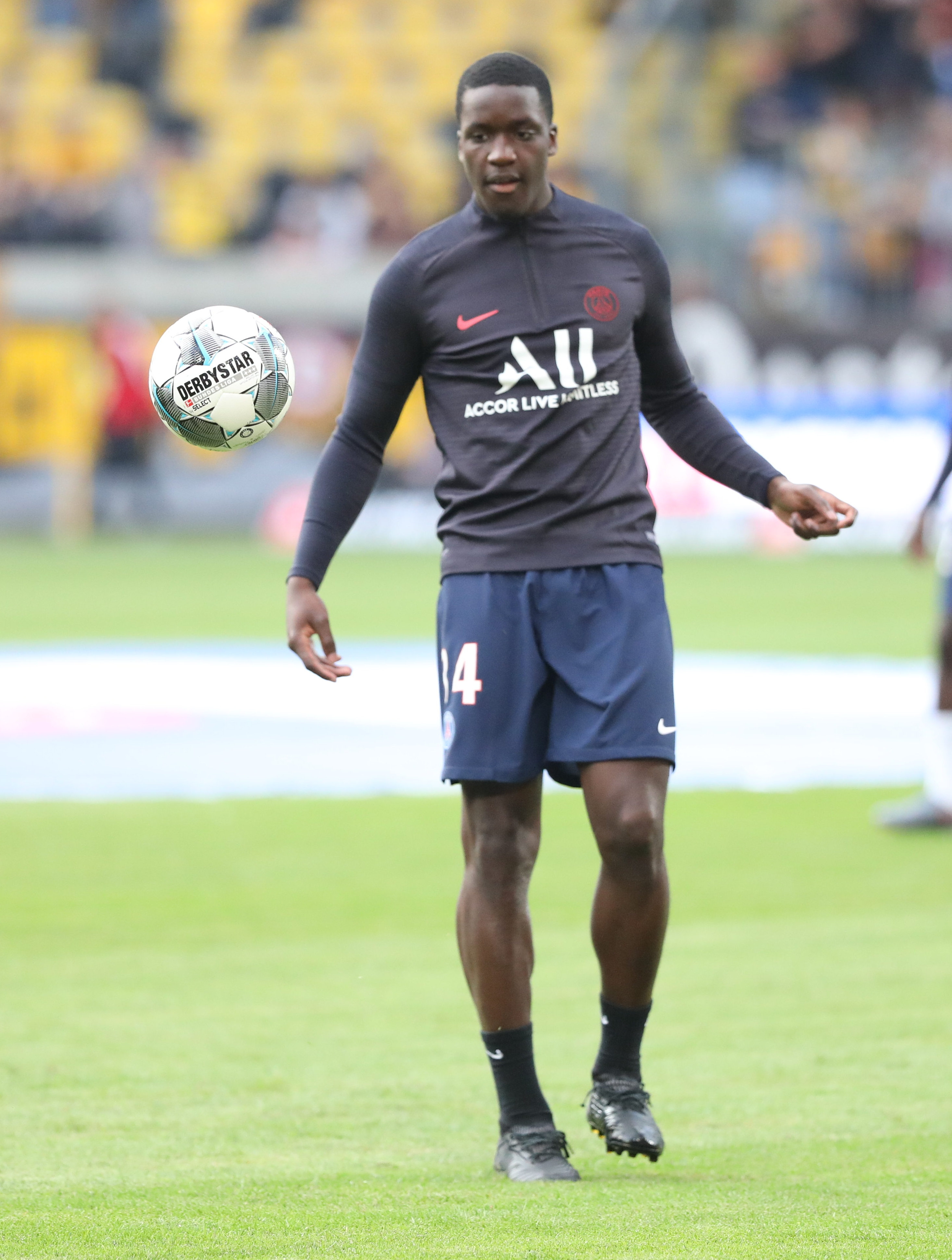 Test game, 17th July 2019: SG Dynamo Dresden vs. Paris Saint-Germain 1:6 (0:3)